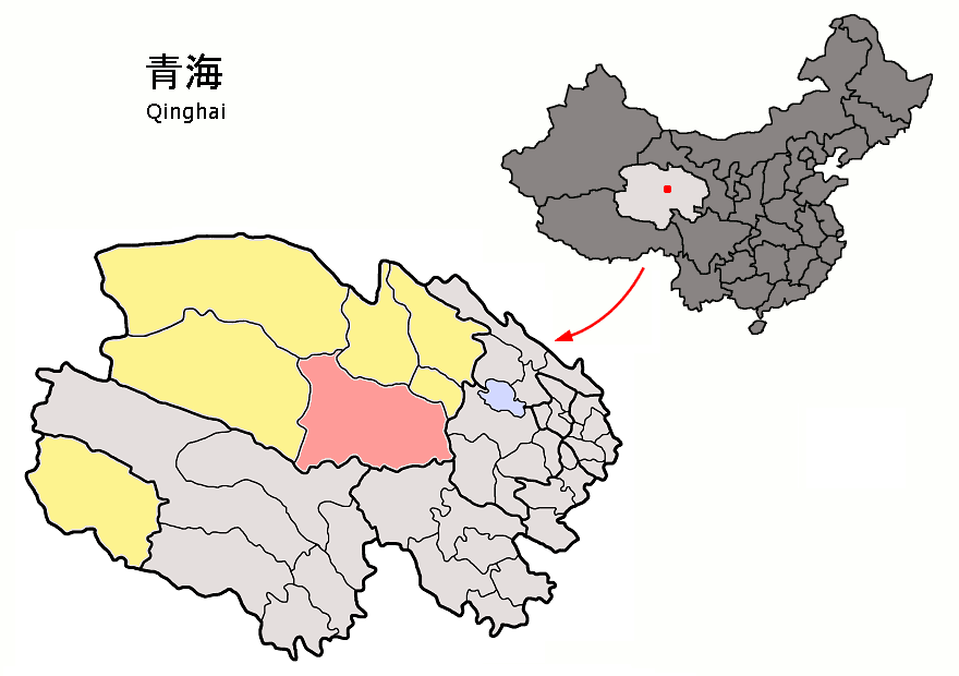 Location of Dulan County (pink) and Haixi Prefecture (yellow) within Qinghai province of China Map drawn in september 2007 using various sources, mainly : Qinghai province administrative regions GIS data: 1:1M, County level, 1990 Qinghai Counties map from "Plateau Perspectives" (the limits of some county-level subdivisions may not be accurate)